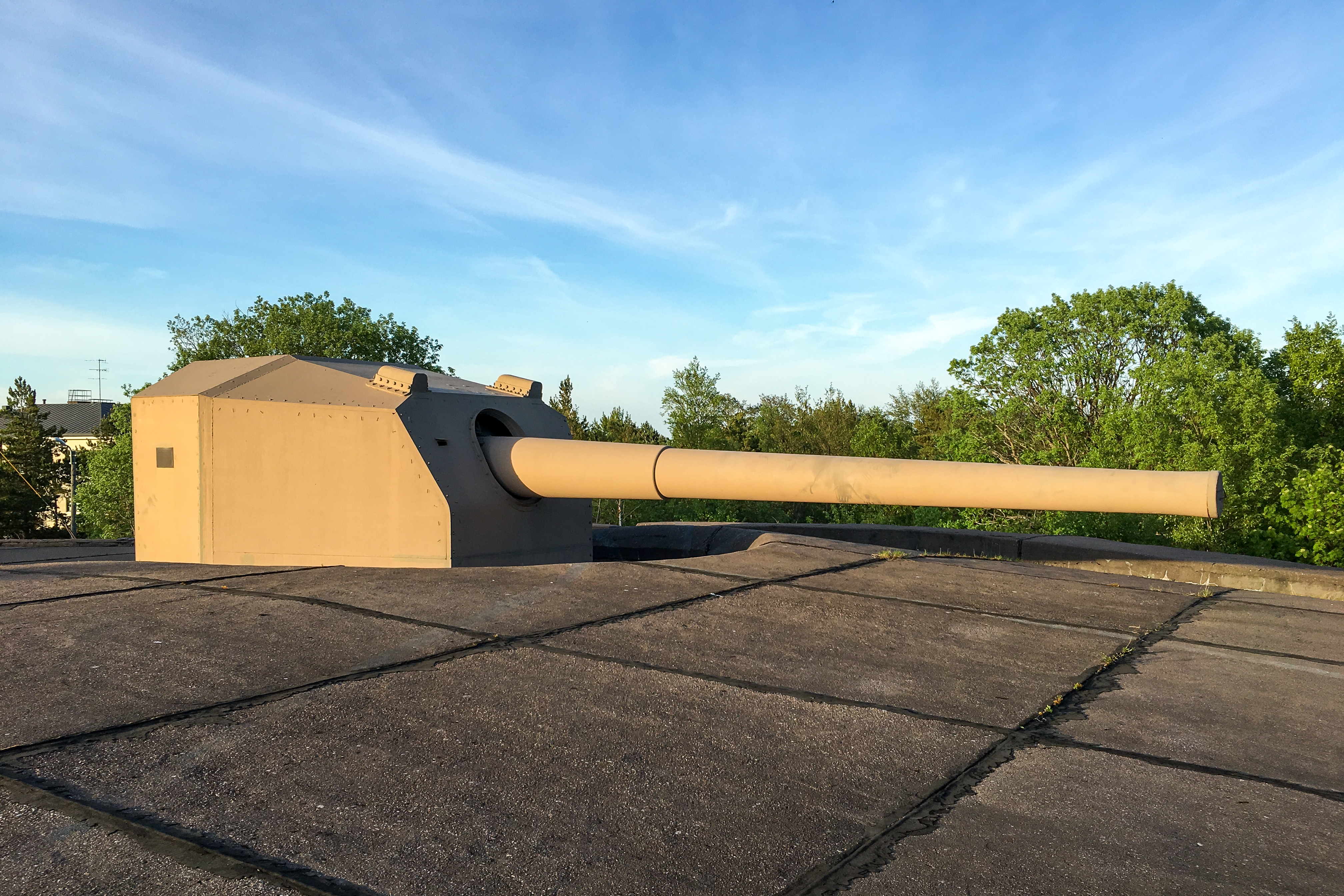 234/50 Be coastal gun on Russarö, Hanko, Finland.